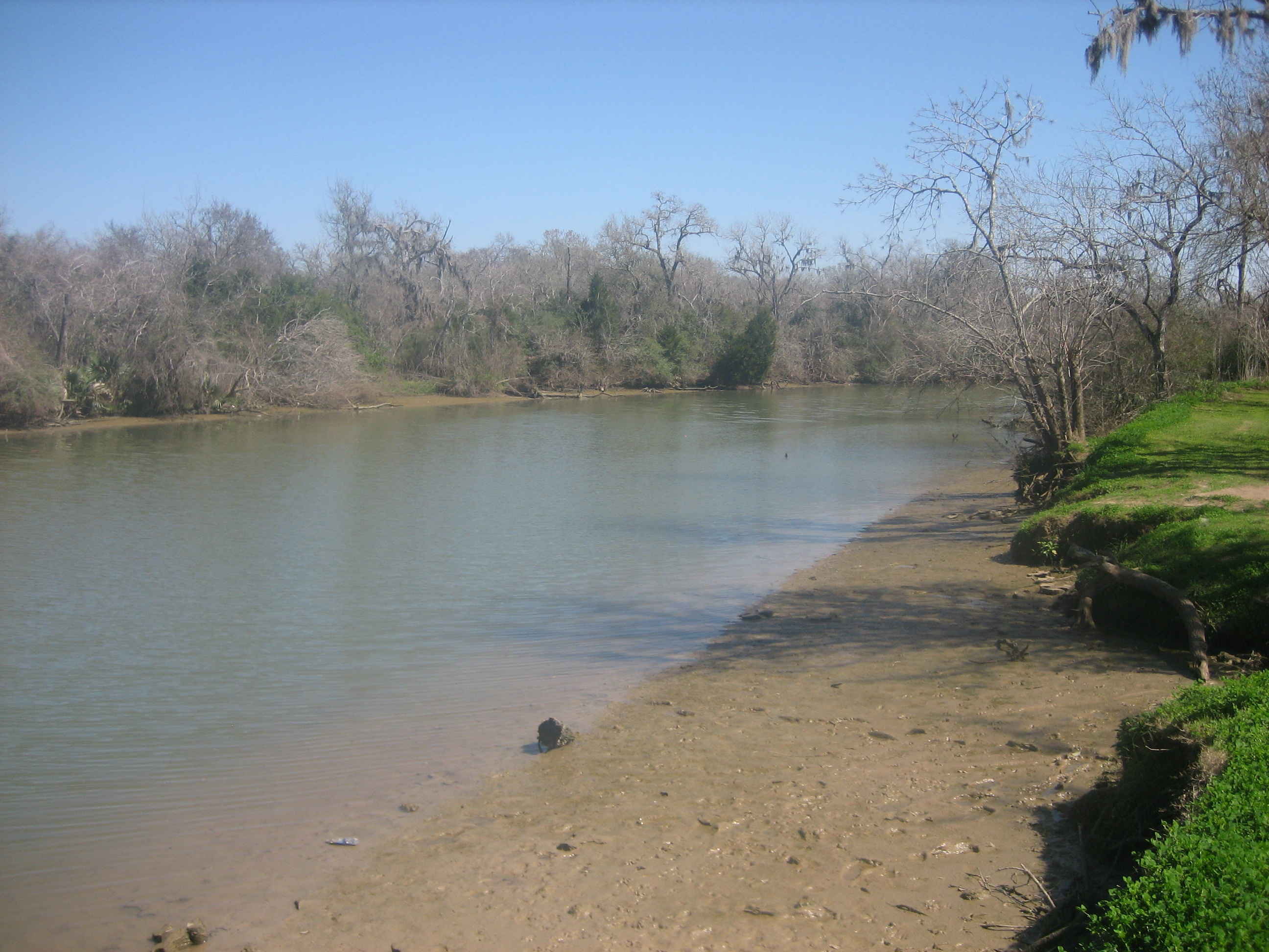 Clear Creek near West Bay Area Boulevard in Galveston County, Texas, looking downstream.